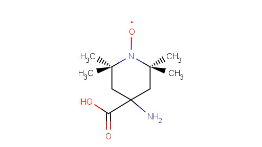 4-amino-4-hydroxycarbonyl-2,2,6,6-tétraméthylpiperidine-1-oxyle radical probe